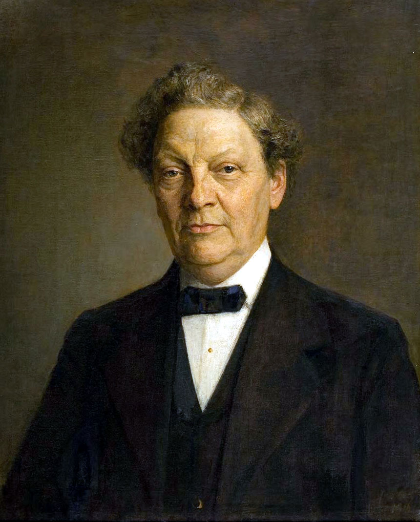 Willem Nolen (1854-1939), professor (medicine) at Leiden University